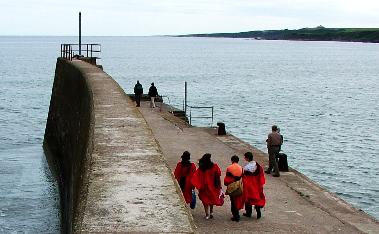 Students at the University of St Andrews in their red gowns, walking along the town's pier.